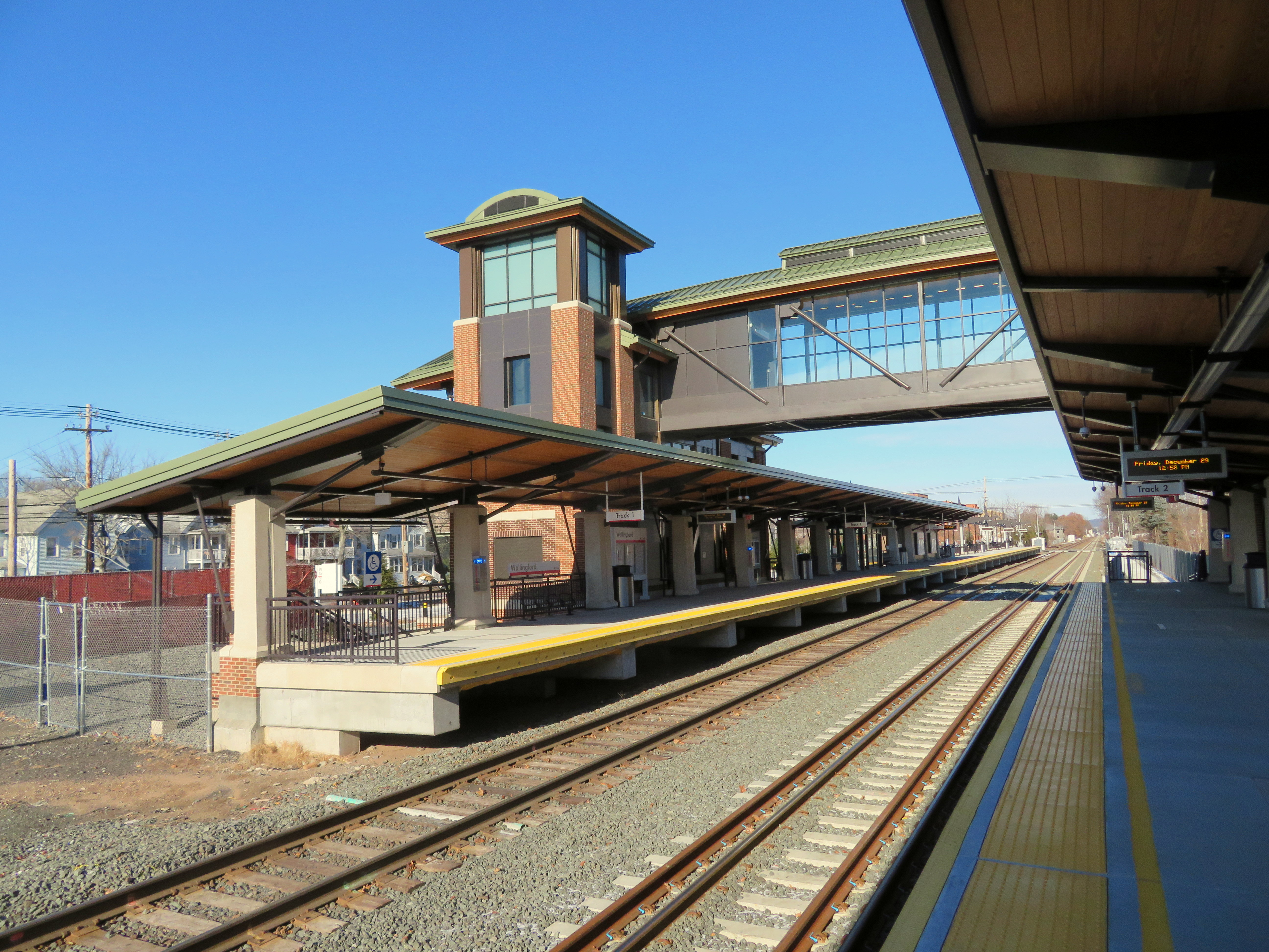 The newly opened Wallingford station in December 2017